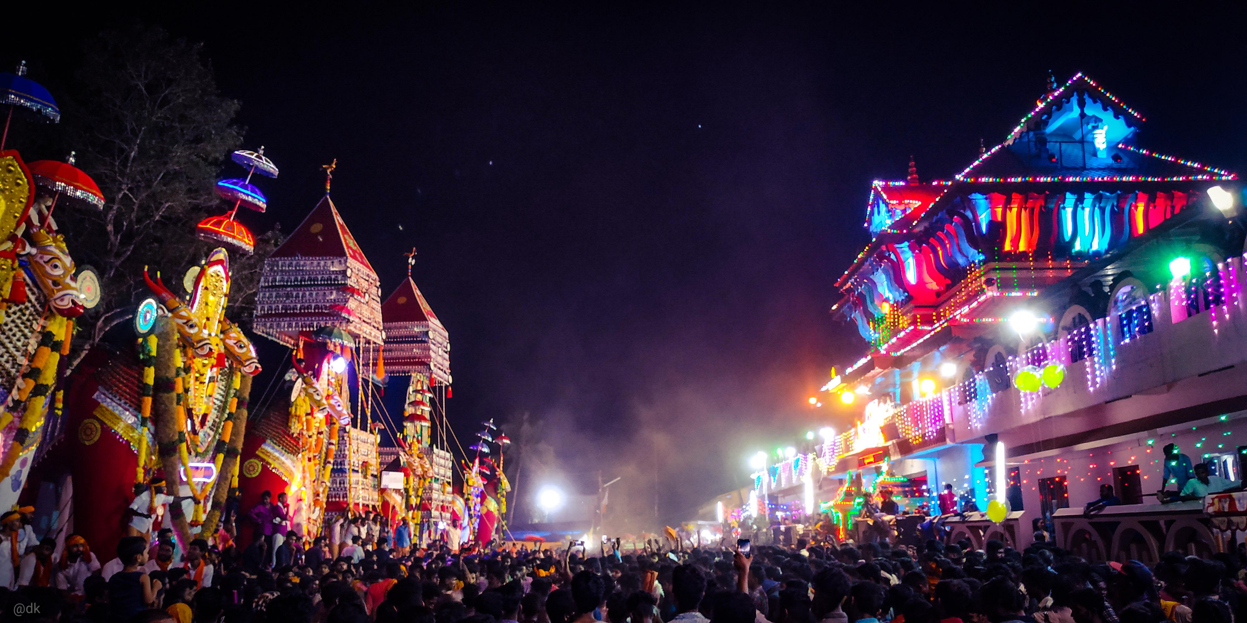 Trichendamangalam Mahadevar Temple festival